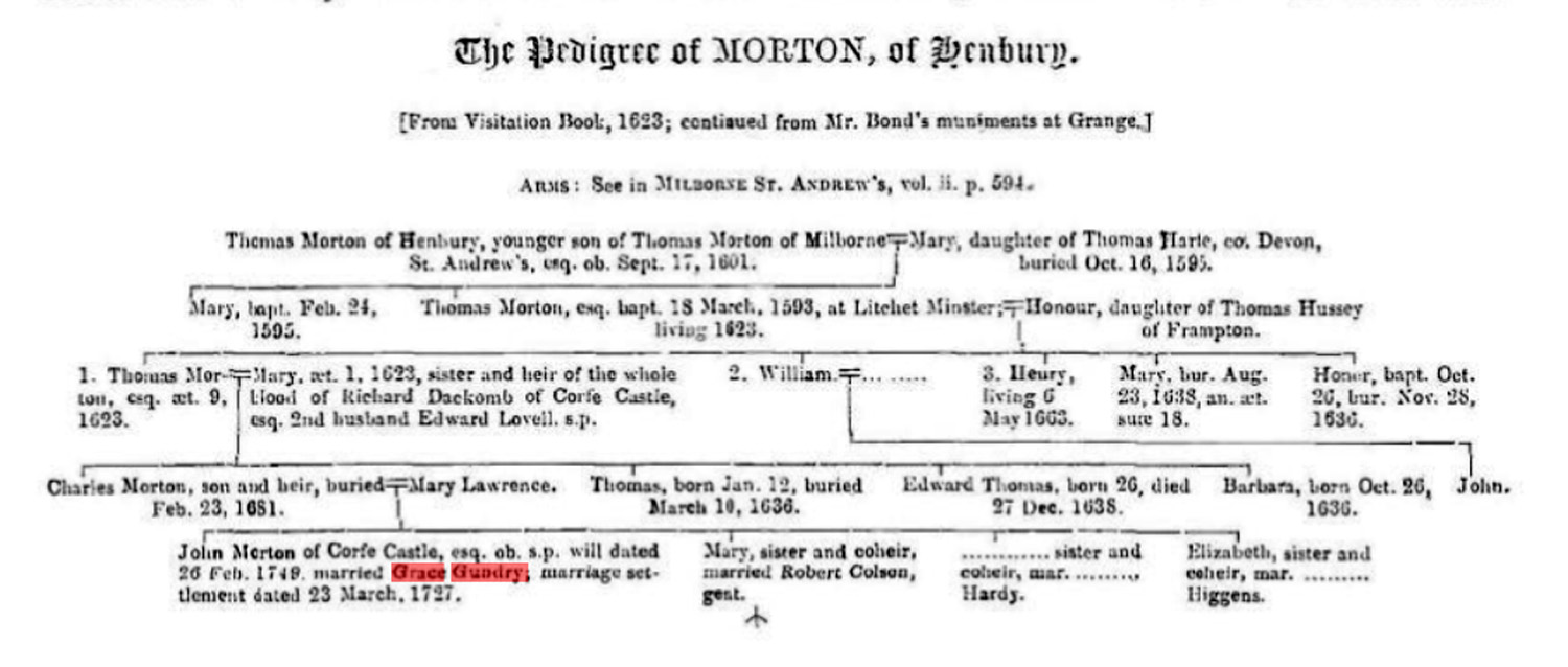 Pedigree chart of the Morton family of Henbury